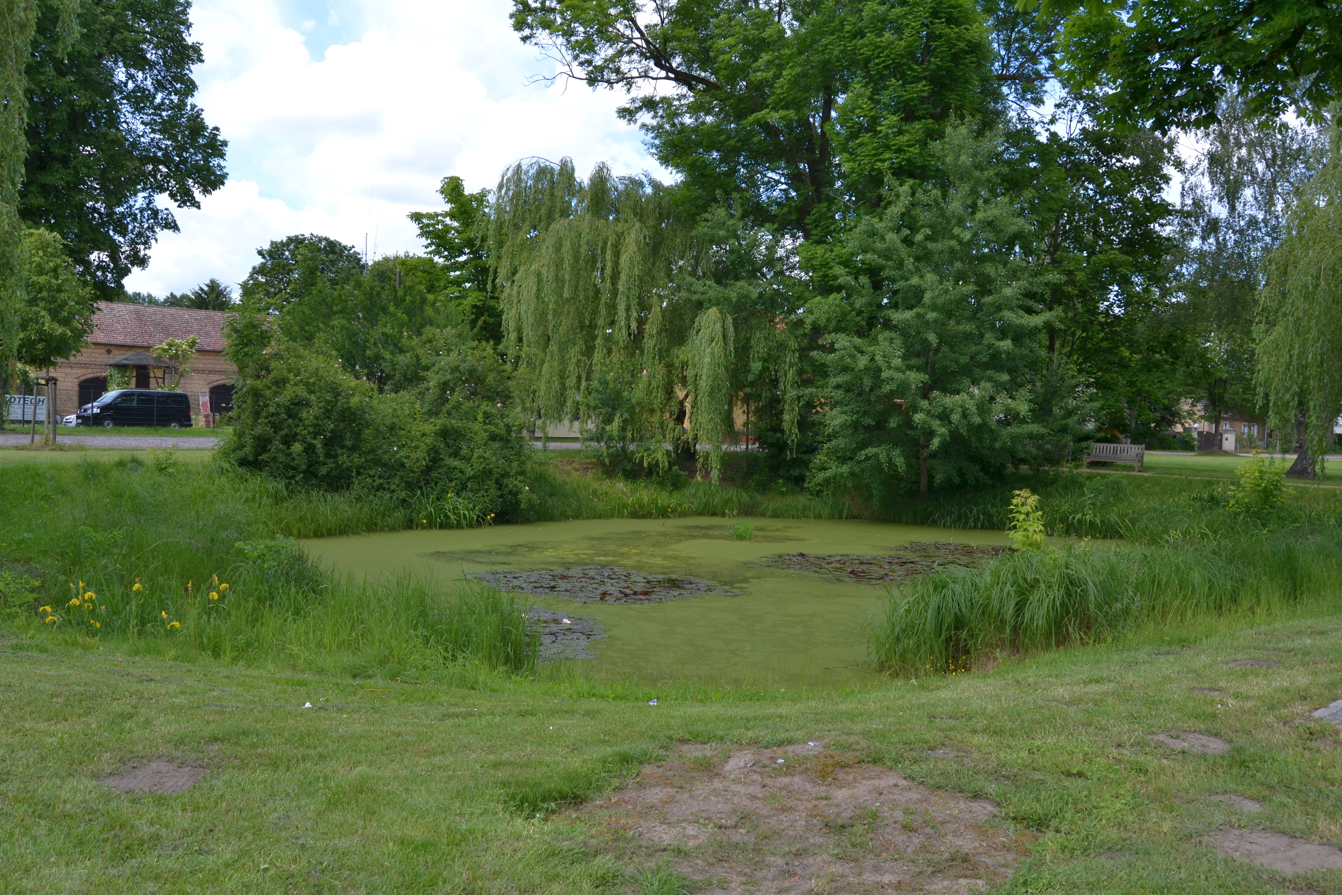 Bäckerpfuhl at the Village Green of Kleinschönebeck in Schöneiche bei Berlin